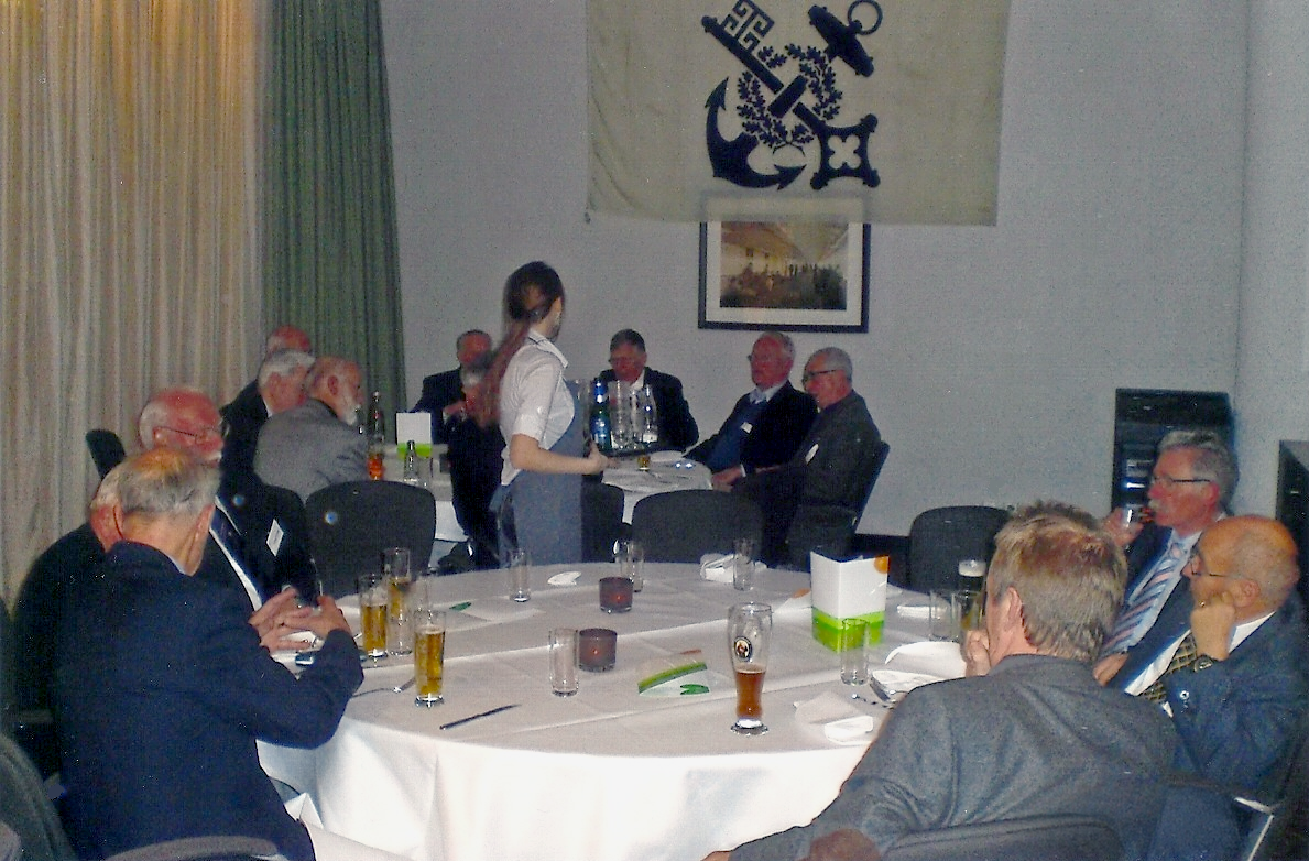 Participants of the fourth large Bremer NDL meeting on 20 February 2013 in the premises of the Courtyard Marriott Hotel